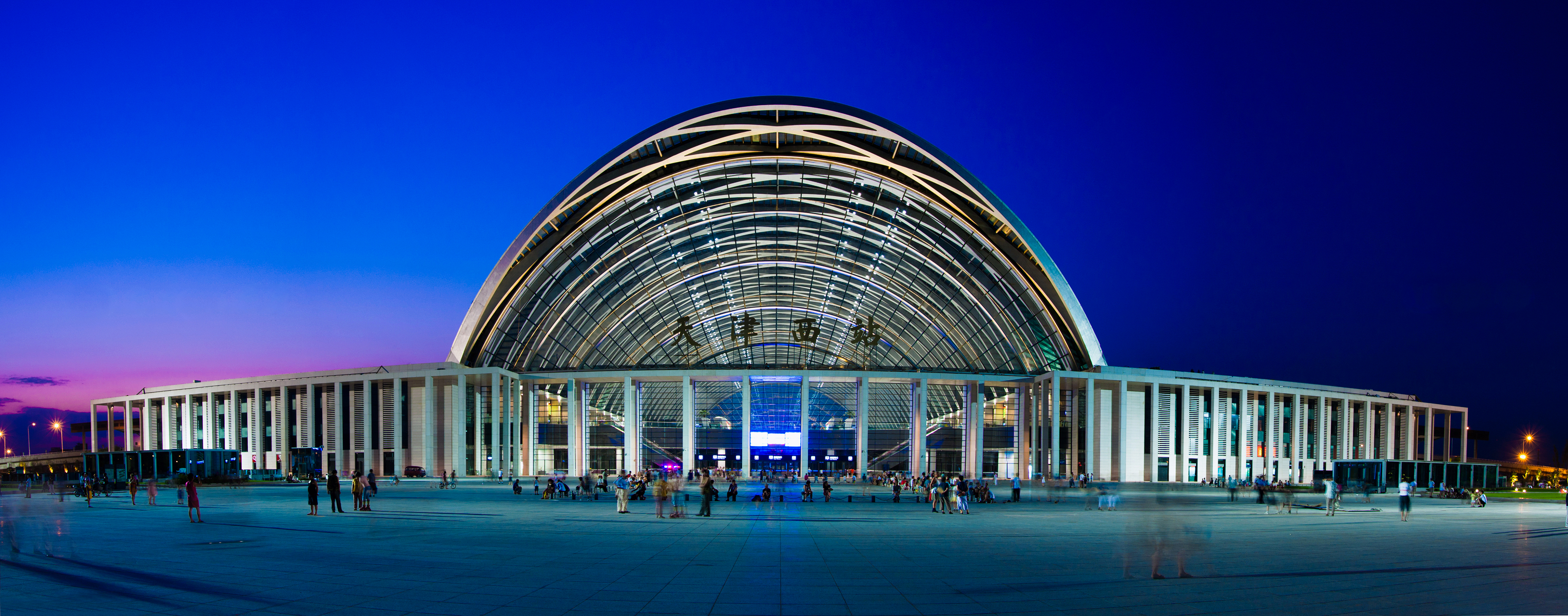 天津西站全景 Panorama of Tianjin West Railway Station